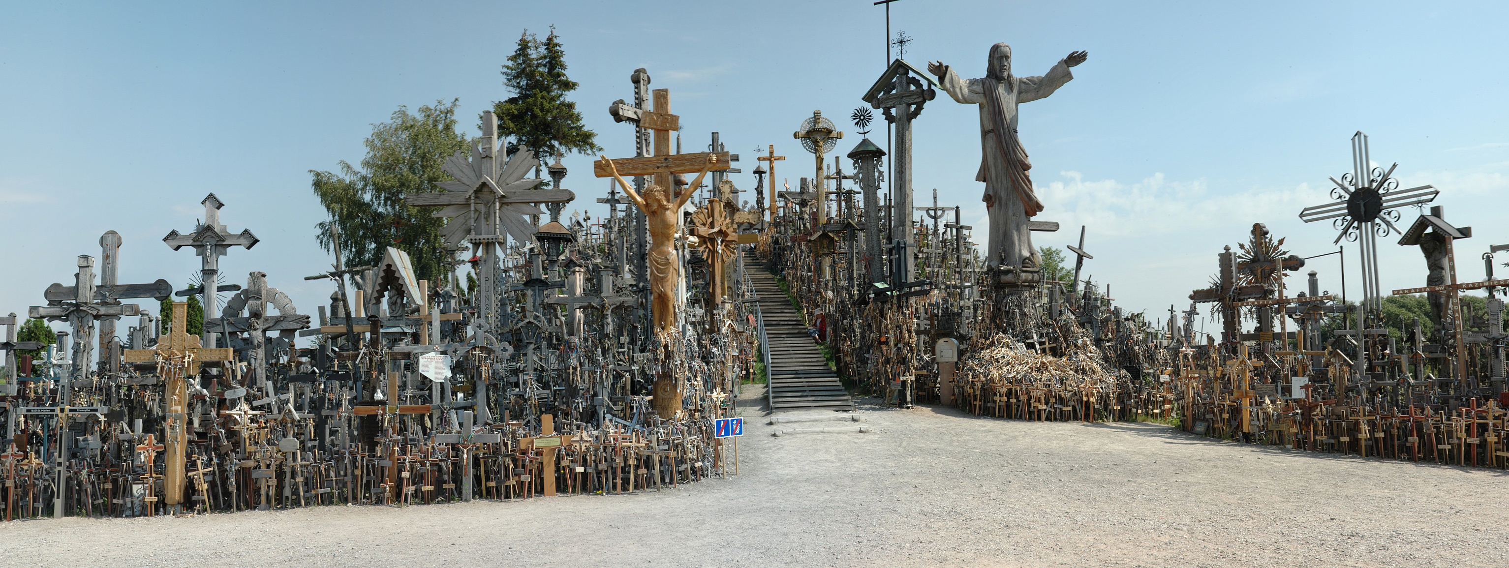 Hill of crosses. Šiauliai, Lithuania.